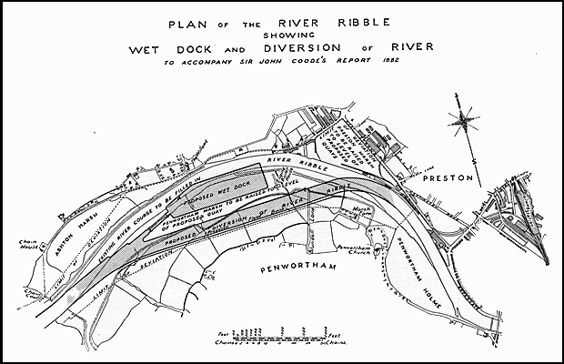 Plan of River Ribble Diversion 1882.